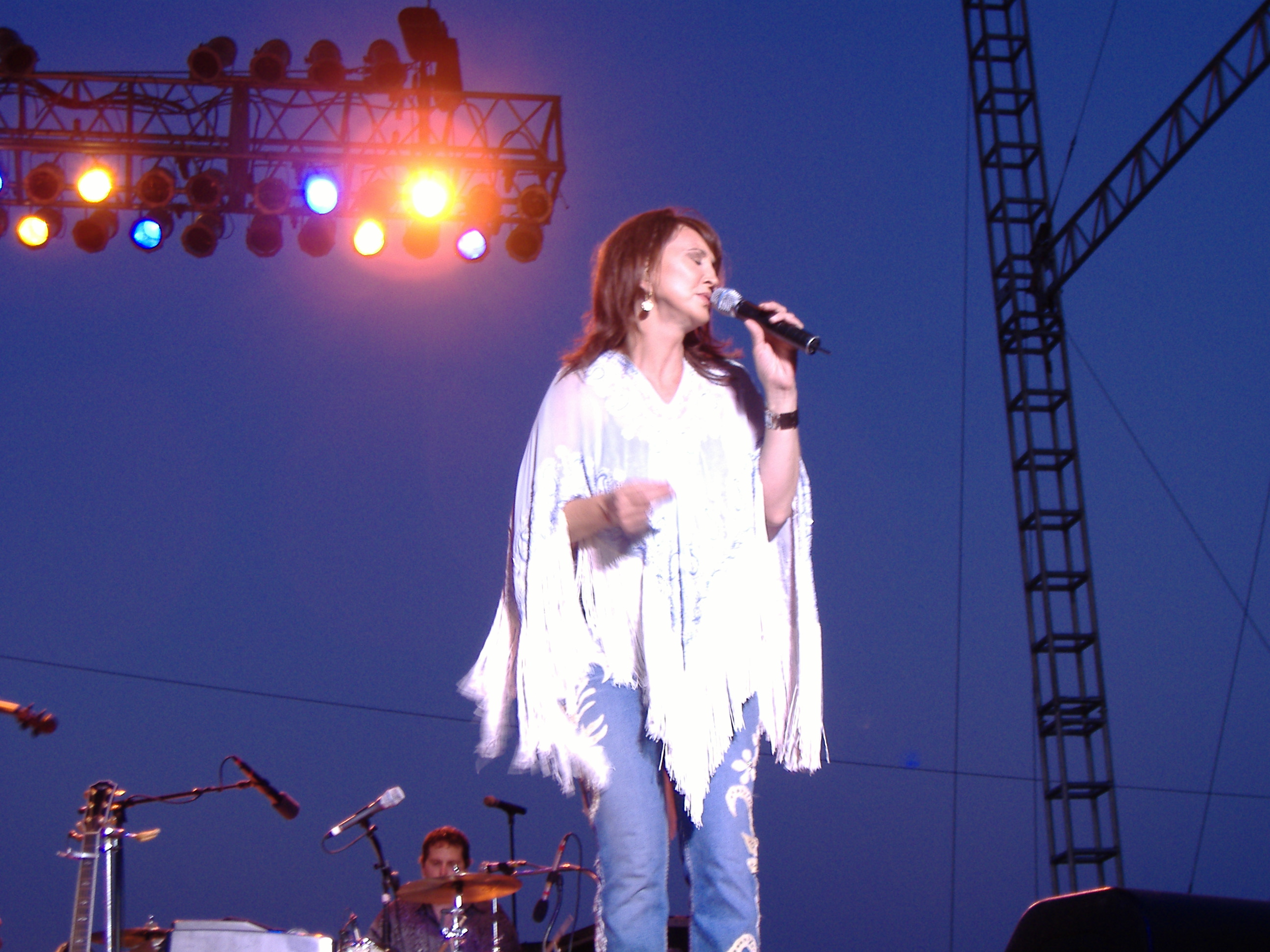 I Alakey2010 took this picture of Pam Tillis on Tuesday, August 15, 2006 at the 2006 Missouri State Fair.